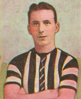 Photograph of Don Fraser in 1906.